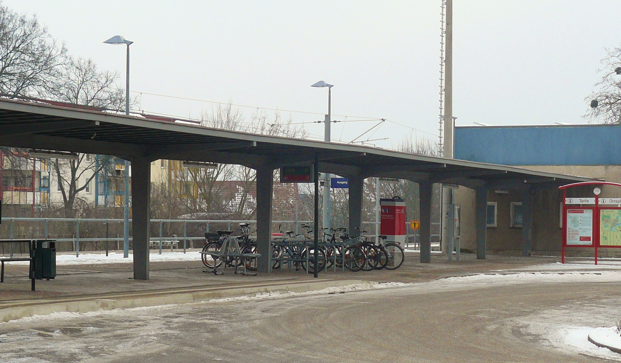 Schwedt (Oder) - train station.